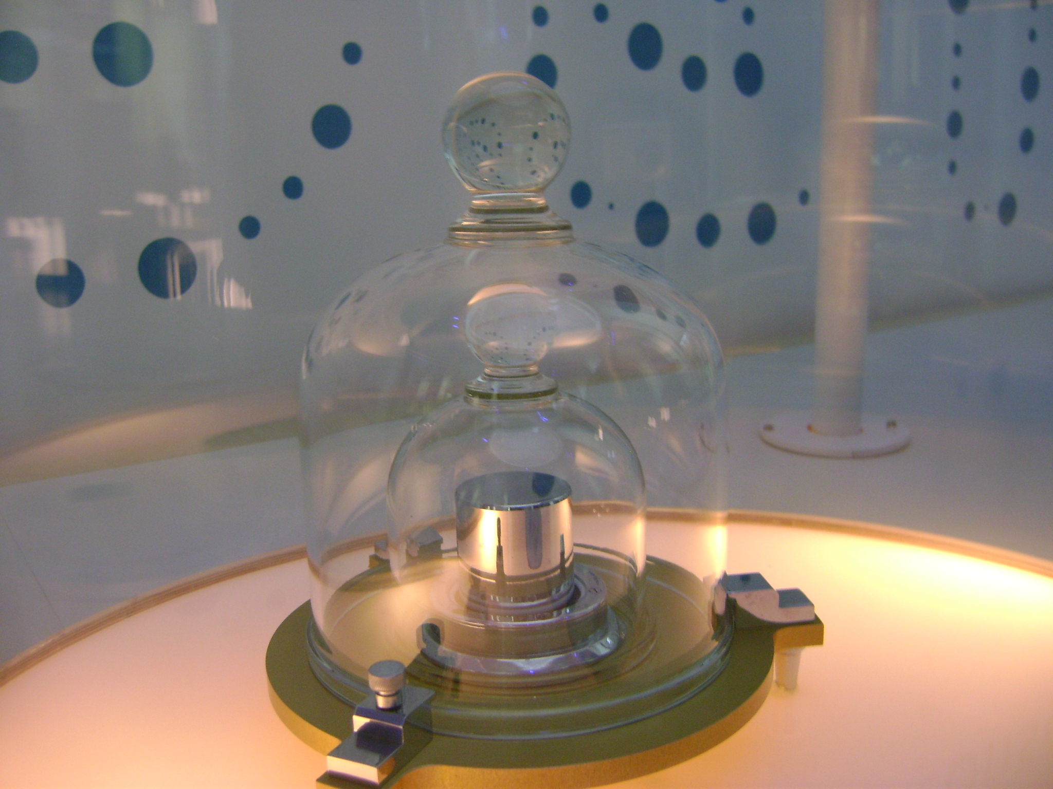 A replica of the prototype of the kilogram at the Cité des Sciences et de l’Industrie, Paris, France.